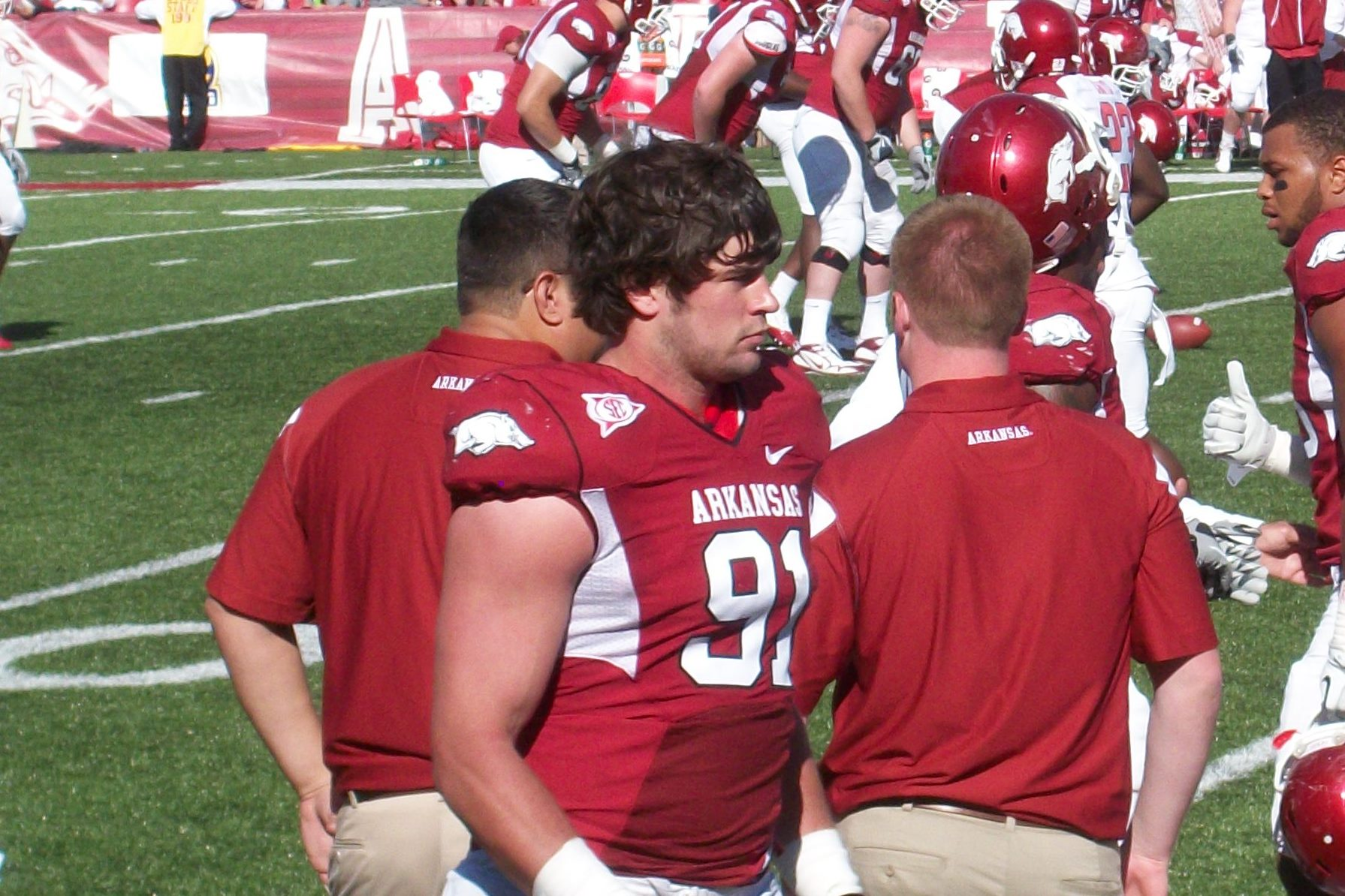 Jake Bequette walks down the sideline during the 2011 Arkansas Razorbacks football spring game